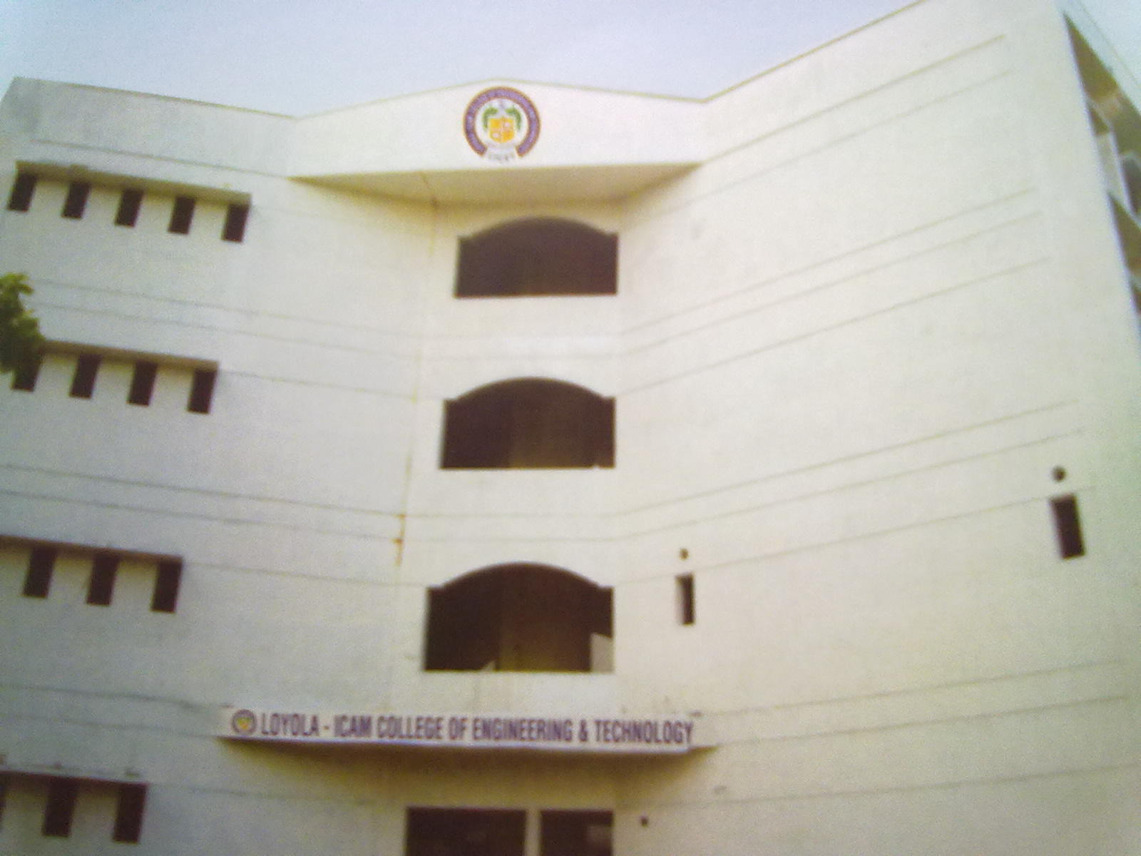 Loyola-ICAM College of Engineering and Technology (LICET)